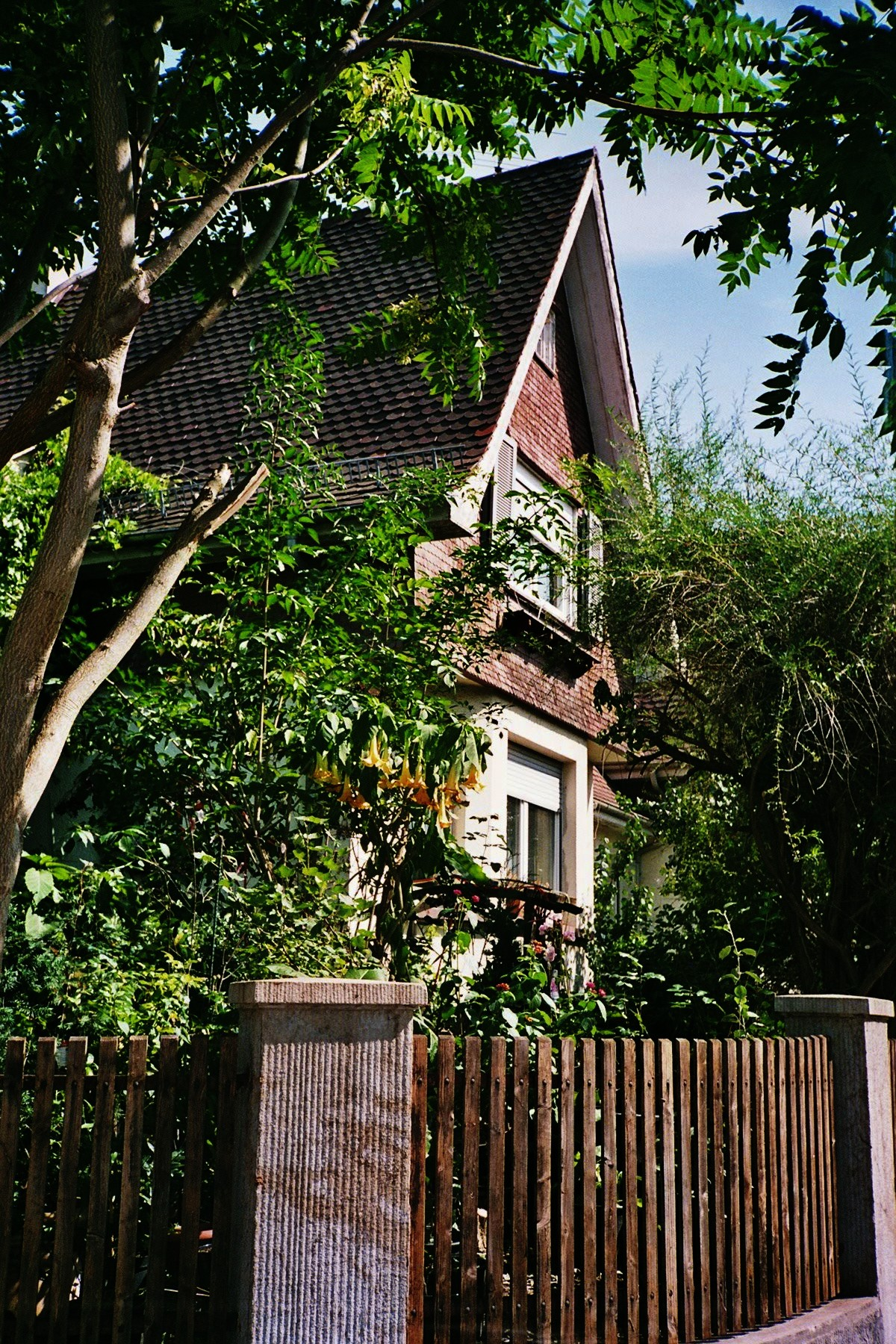 Hn-liebigstr 14.JPG